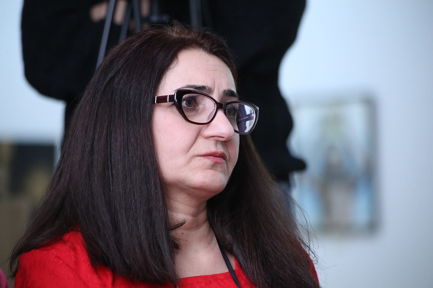 Professor Tsovinar Hovhannisyan